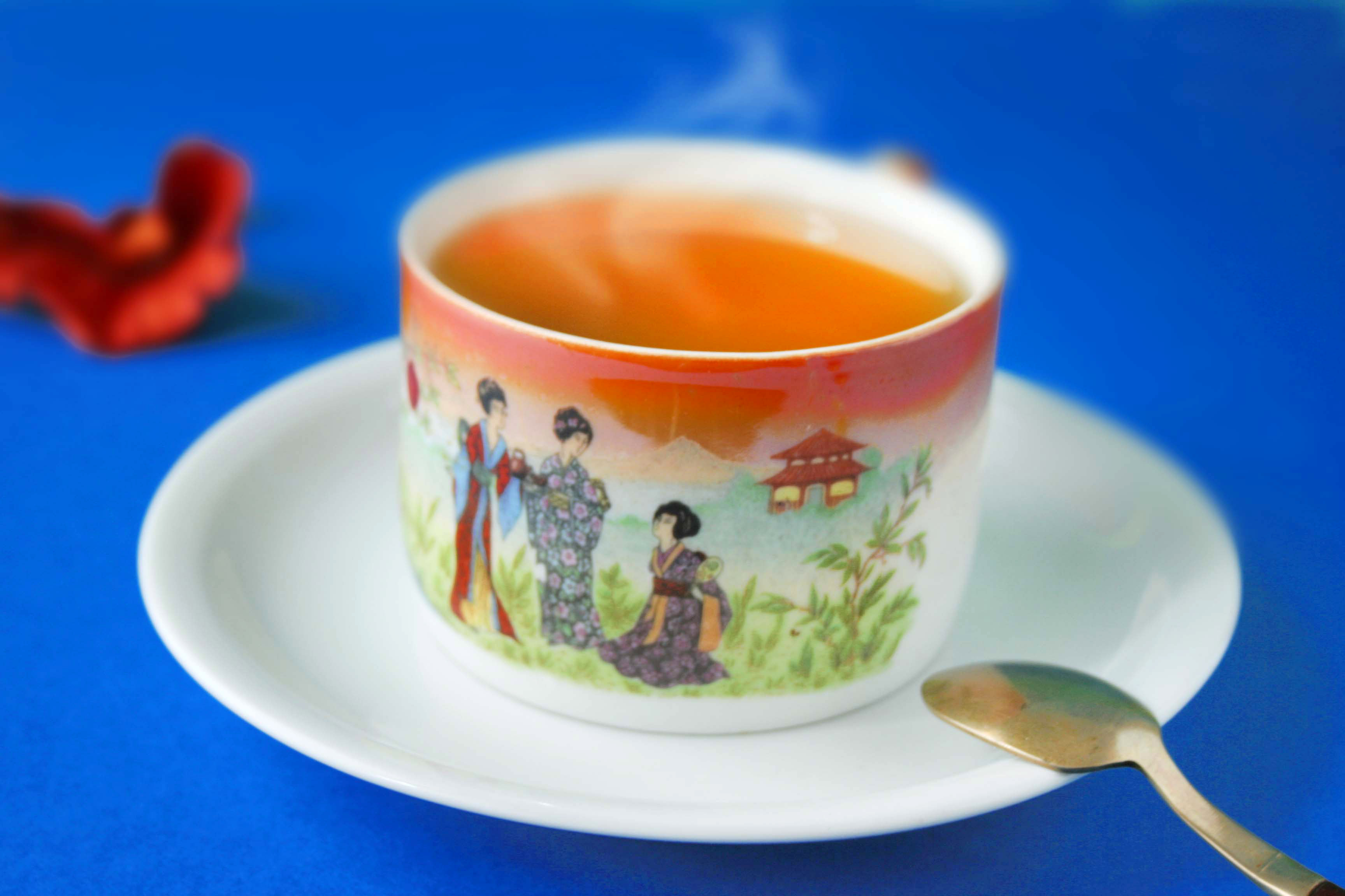 Hot China-tea - no sugar, no milk